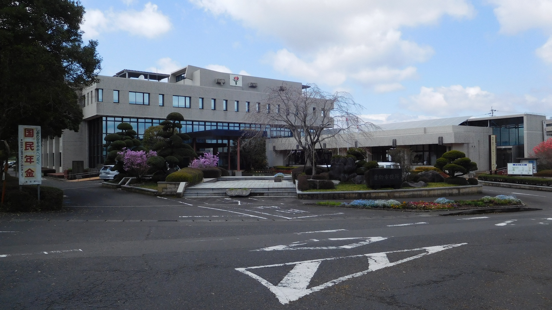 Soo City Office (Former Sueyoshi Town office - Kagoshima, Japan)